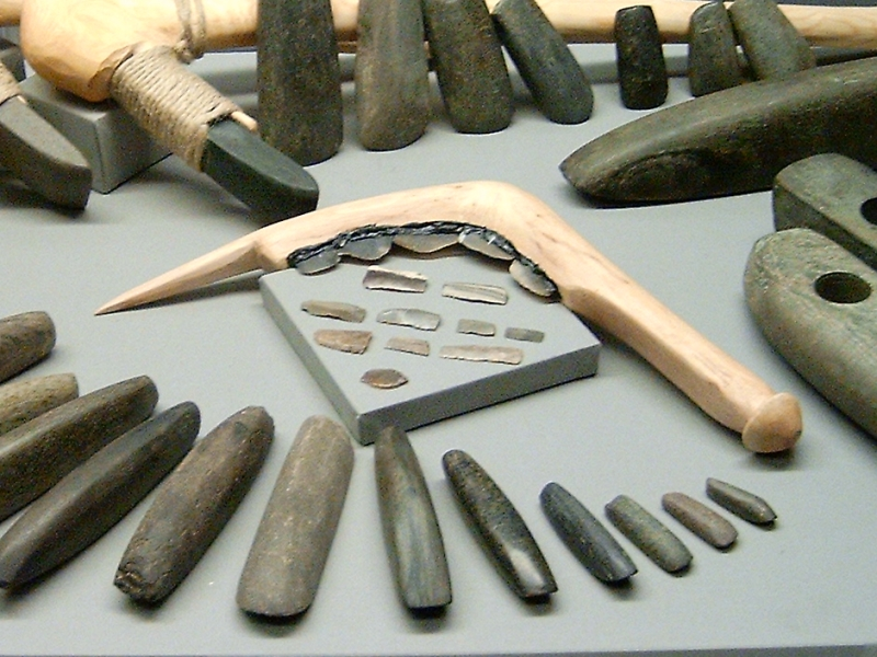 Harvesting knife around 5000 BC (replica)